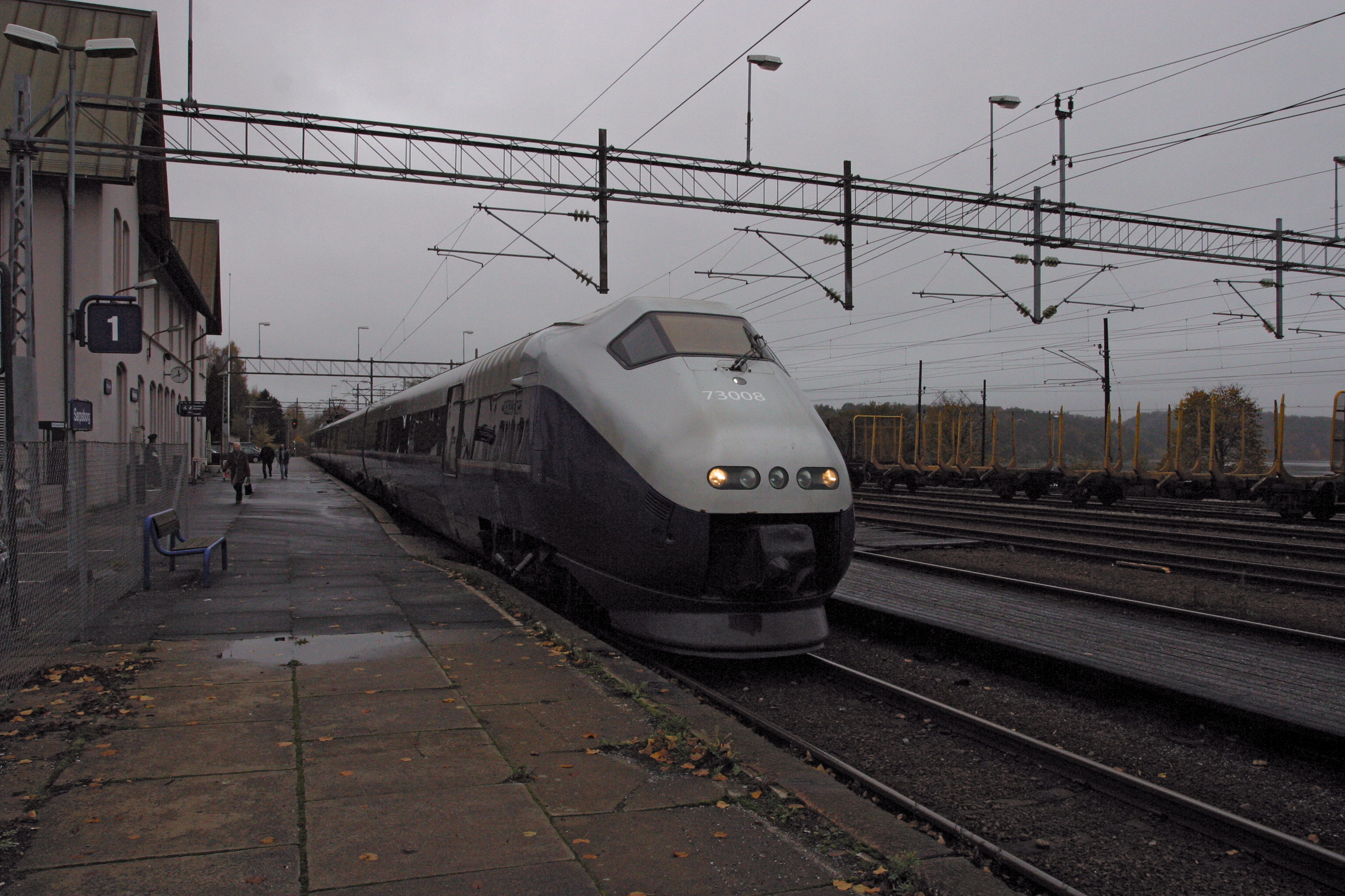 Picture of Train type 73 at Sarpsborg Railway Station (Norway)